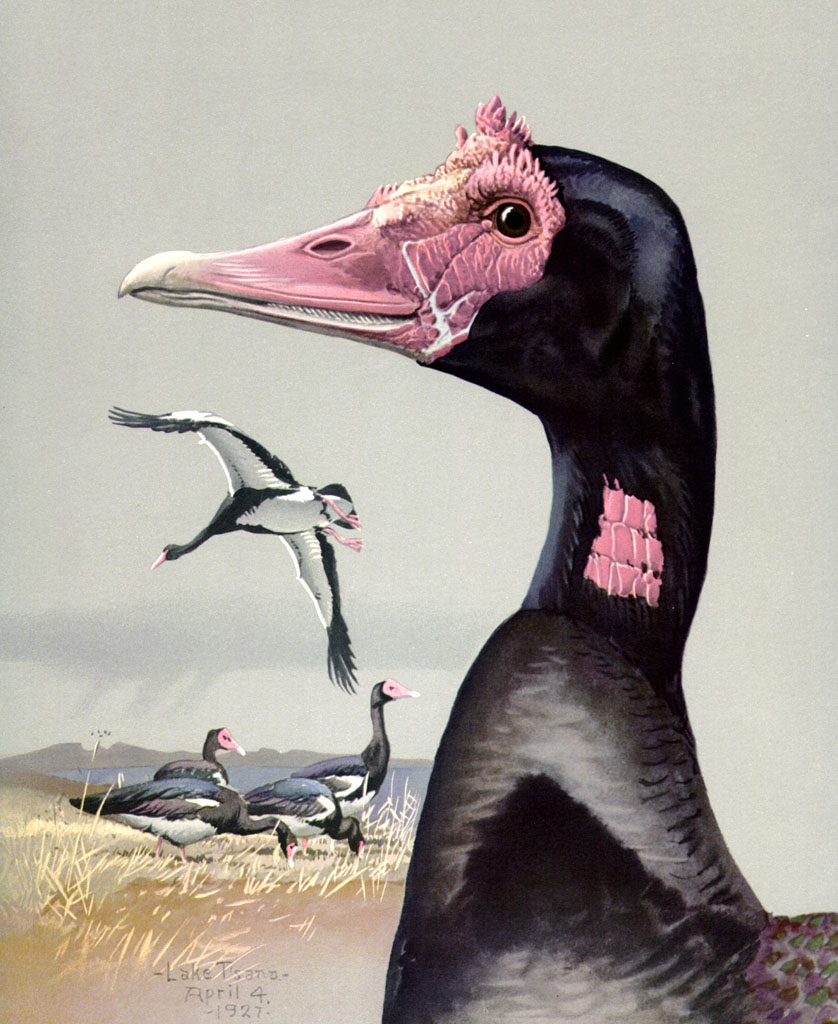 Spur-winged Goose, Plectropterus gambensis, offset reproduction of watercolor